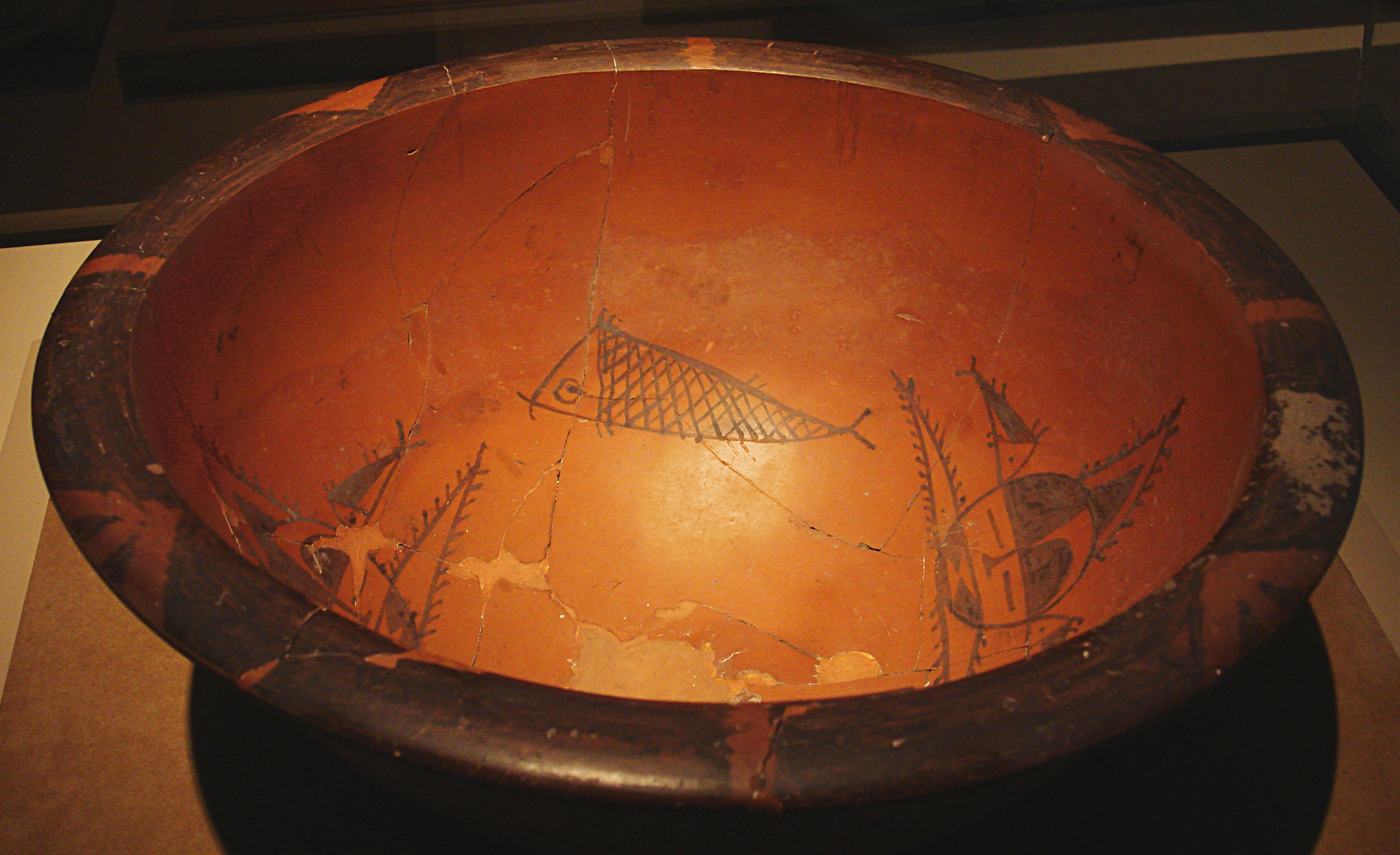 Painted Basin Yangshao Culture, Banpo style (4800-4300 B.C.) Neolithic Period (ca. 5000 - 3000 B.C.) Excavated at Xi'an, Shaanxi Province, 1955 This basin covered a "coffin urn", used in the burial of a child; it is painted with a human face whose nose is shaped like an upside down "T", and there is a fish near each ear. A Shaman likely used the face and fish designs to communicate with the netherworld, and to protect the soul of the dead child.